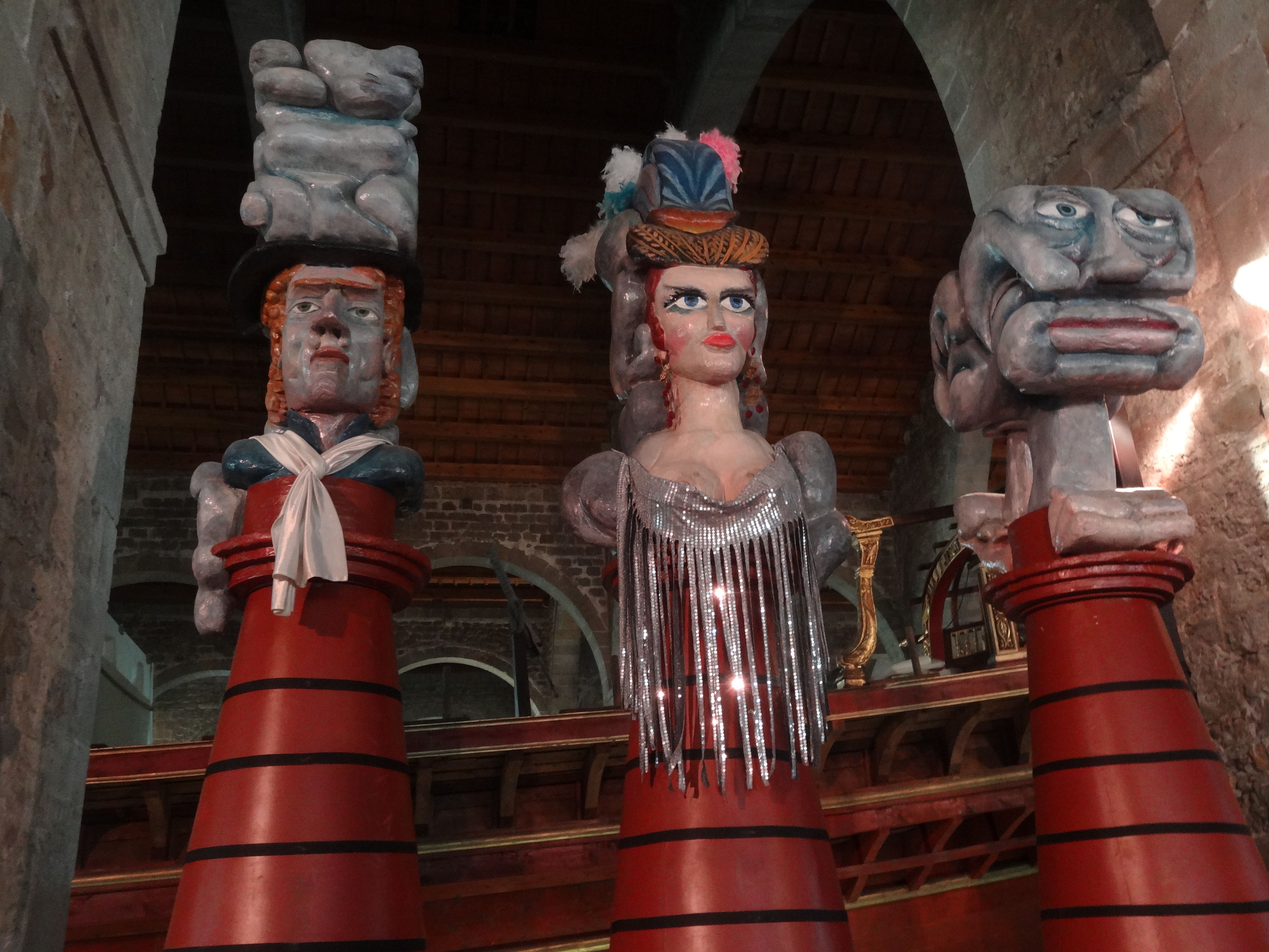 Exhibition of Giants at the Museu Marítim, Barcelona, 2013.